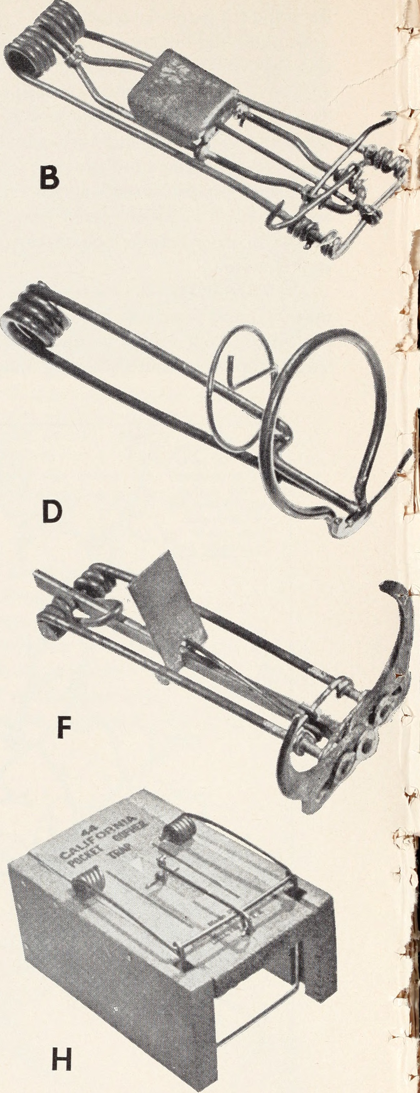 Title: Control of field rodents in California Year: 1949 (1940s) Authors: Storer, Tracy I. (Tracy Irwin), 1889-1973 Subjects: Rodents; Mammals; Rodents Publisher: Berkeley, Calif. : College of Agriculture, University of California Text Appearing Before Image: ' Text Appearing After Image: Fig. 13. Traps for pocket gophers. All shown as set for use, with front end (at right) which is to be put foremost into burrow. A, Macabee trap; B, modified Macabee trap for moles and for gophers hard to trap; C-G, miscellaneous types; H, California pocket gopher trap of wood. (28)